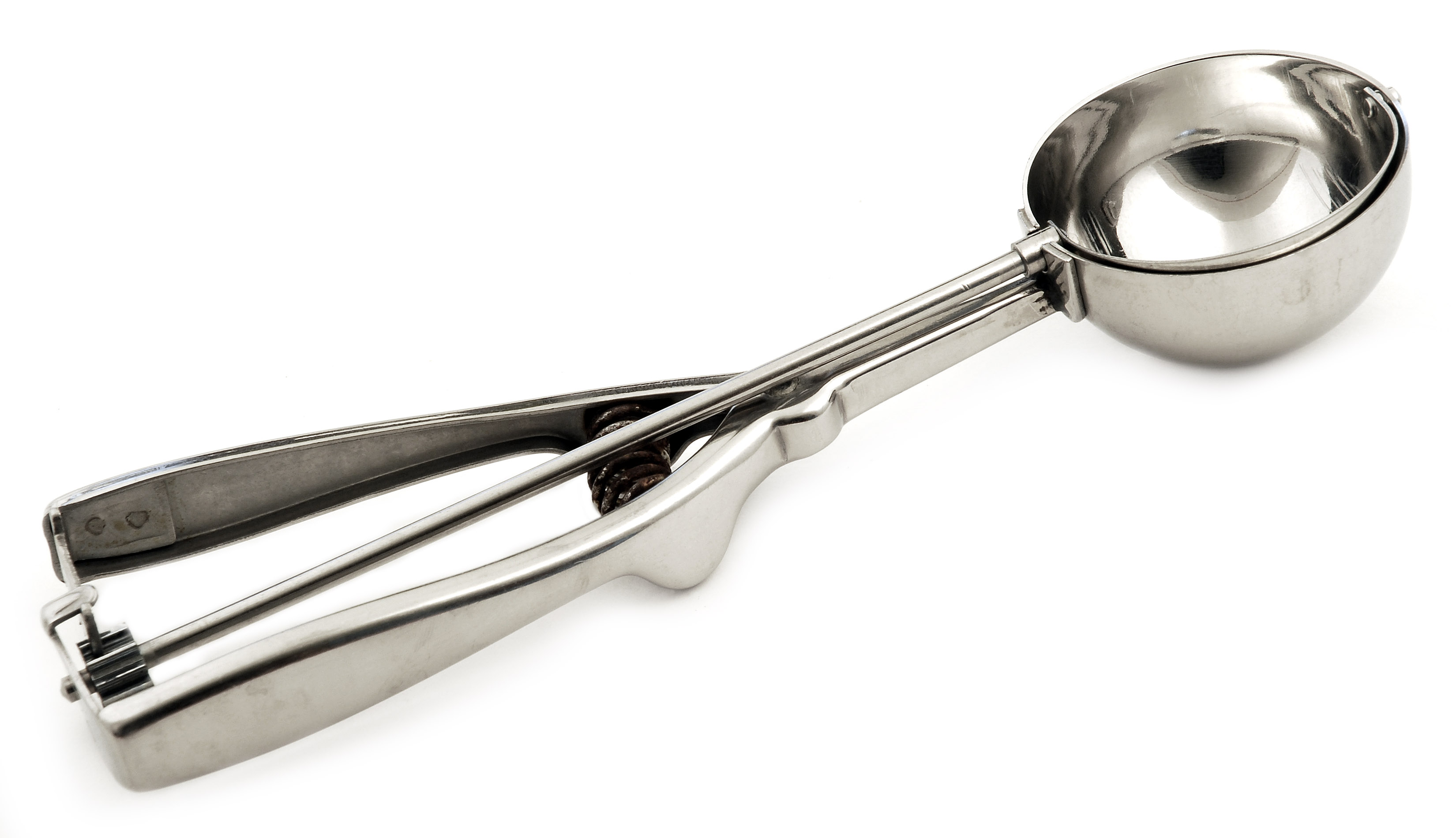 A large kitchen scooper.